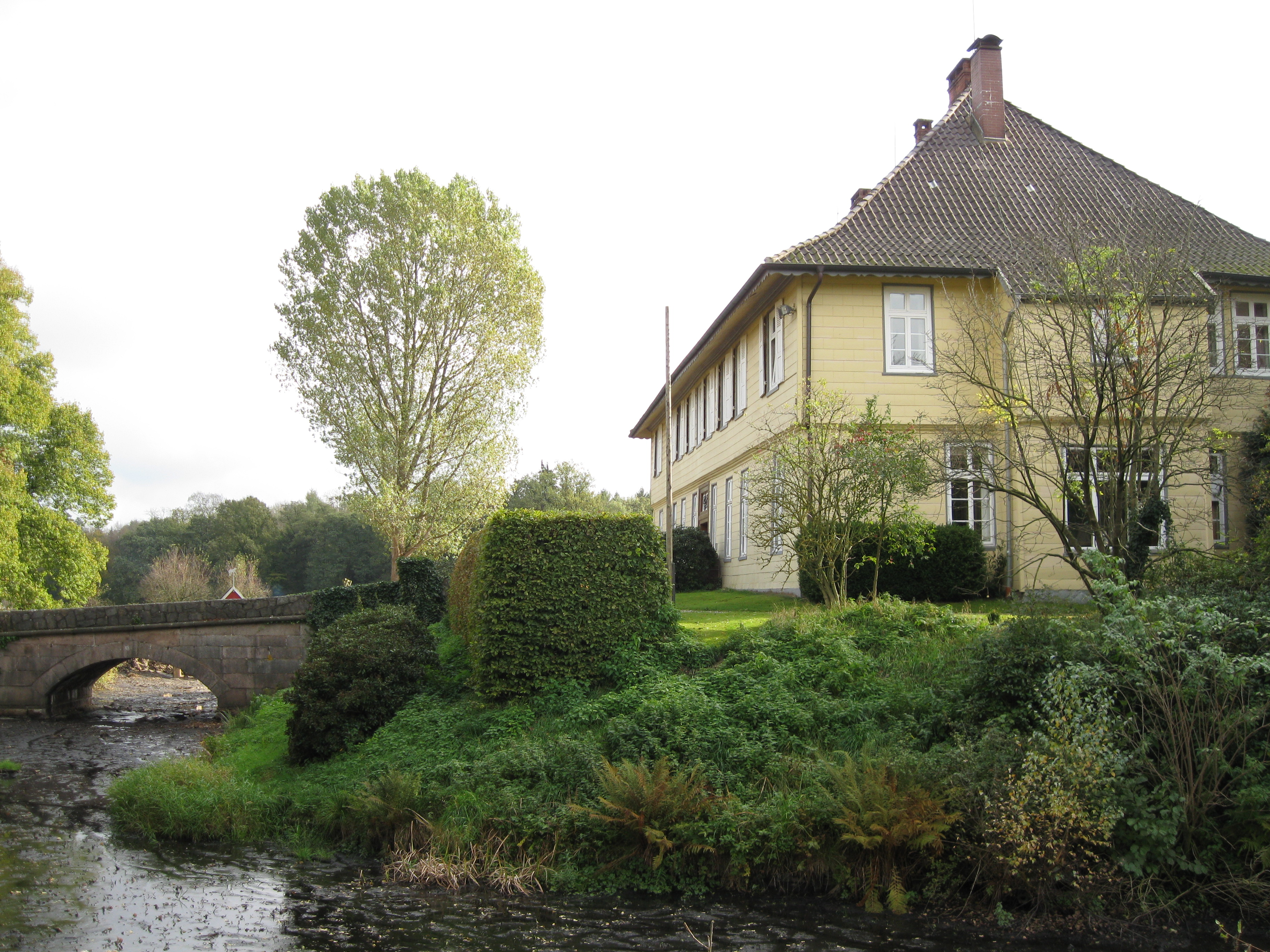 Stellichte, Germany